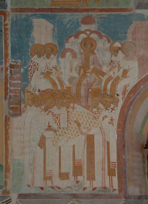 Anathamatization of Nestorius at the Third Ecumenical Council. A fresco by Dionsysius. 1502